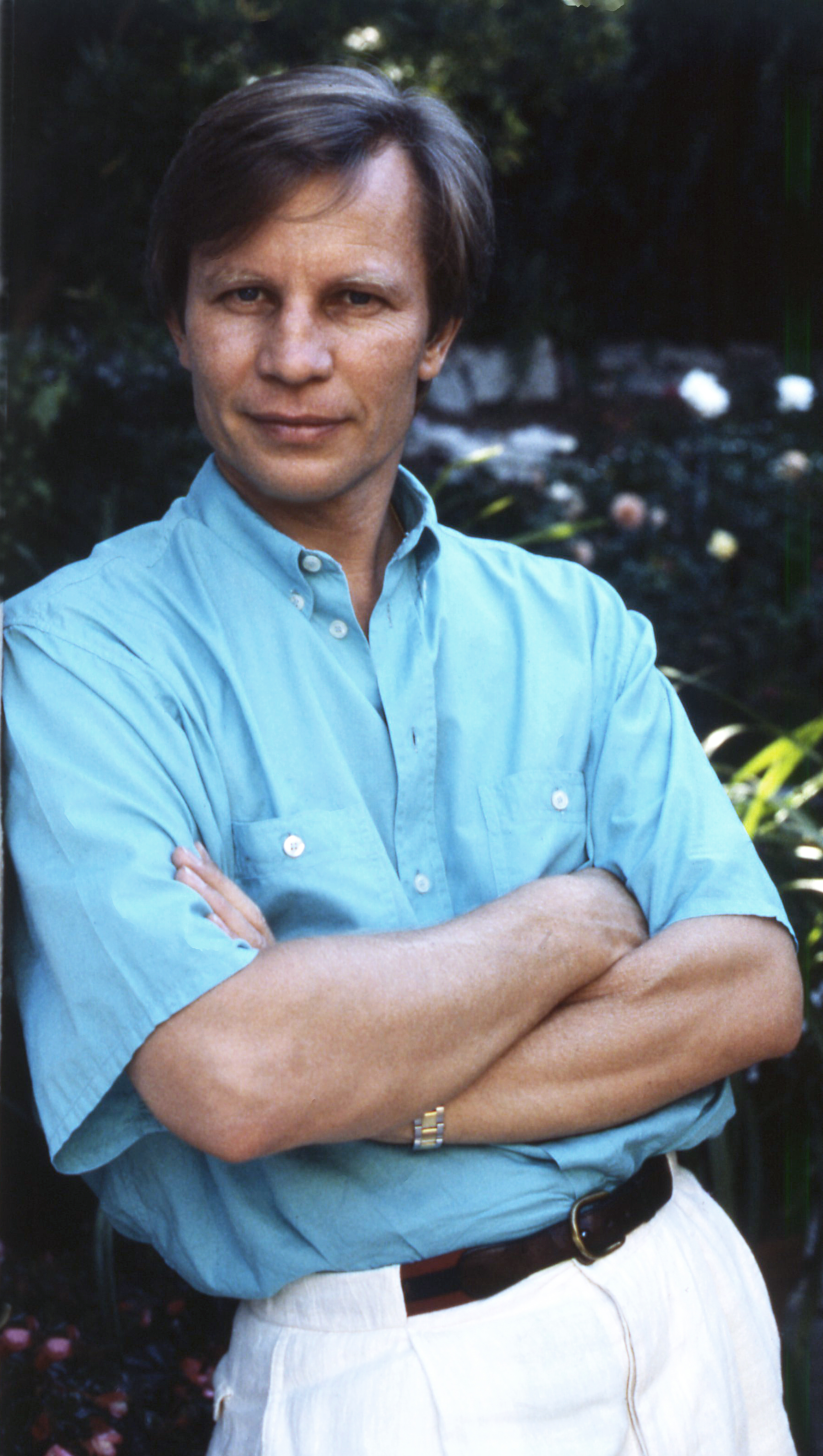 Michael York taken in Los Angeles.